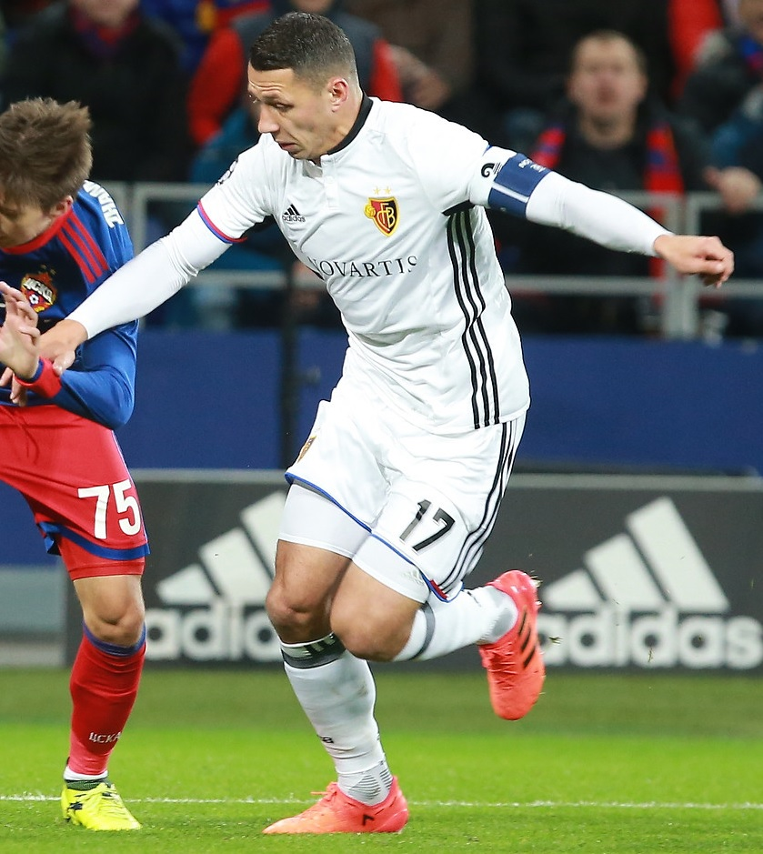 Marek Suchý with Basel in a Champions League game against CSKA Moscow.